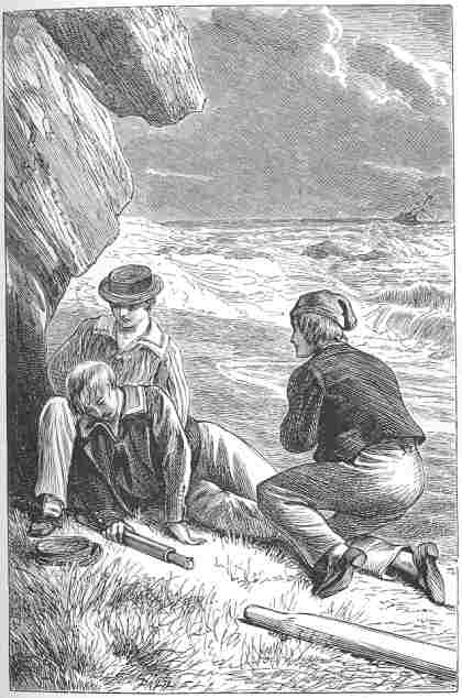 Illustration showing Jack, Ralph and Peterkin washed up on the beach after having been shipwrecked (1884 edition).